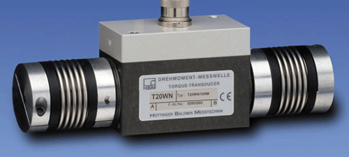 picture of torque transducer with flexible couplings